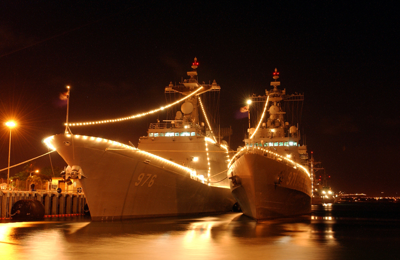 RIMPAC 2006 - Munmu The Great (DDH-976) and Kwanggaeto The Great (DDH-971) lighted ship’s lights to celebrate the July 4th Independence Day.